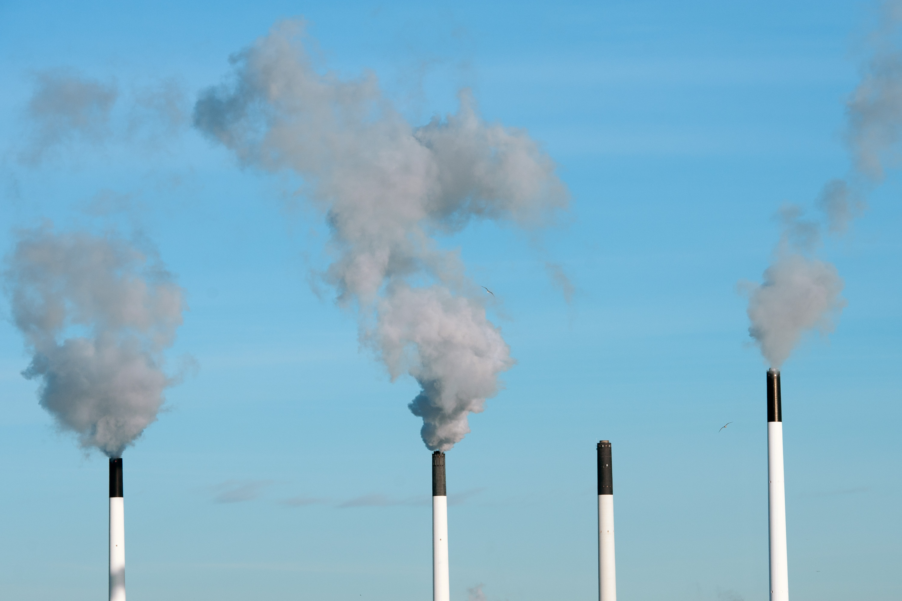 Utsläpp från skorstenar Keywords: Environment